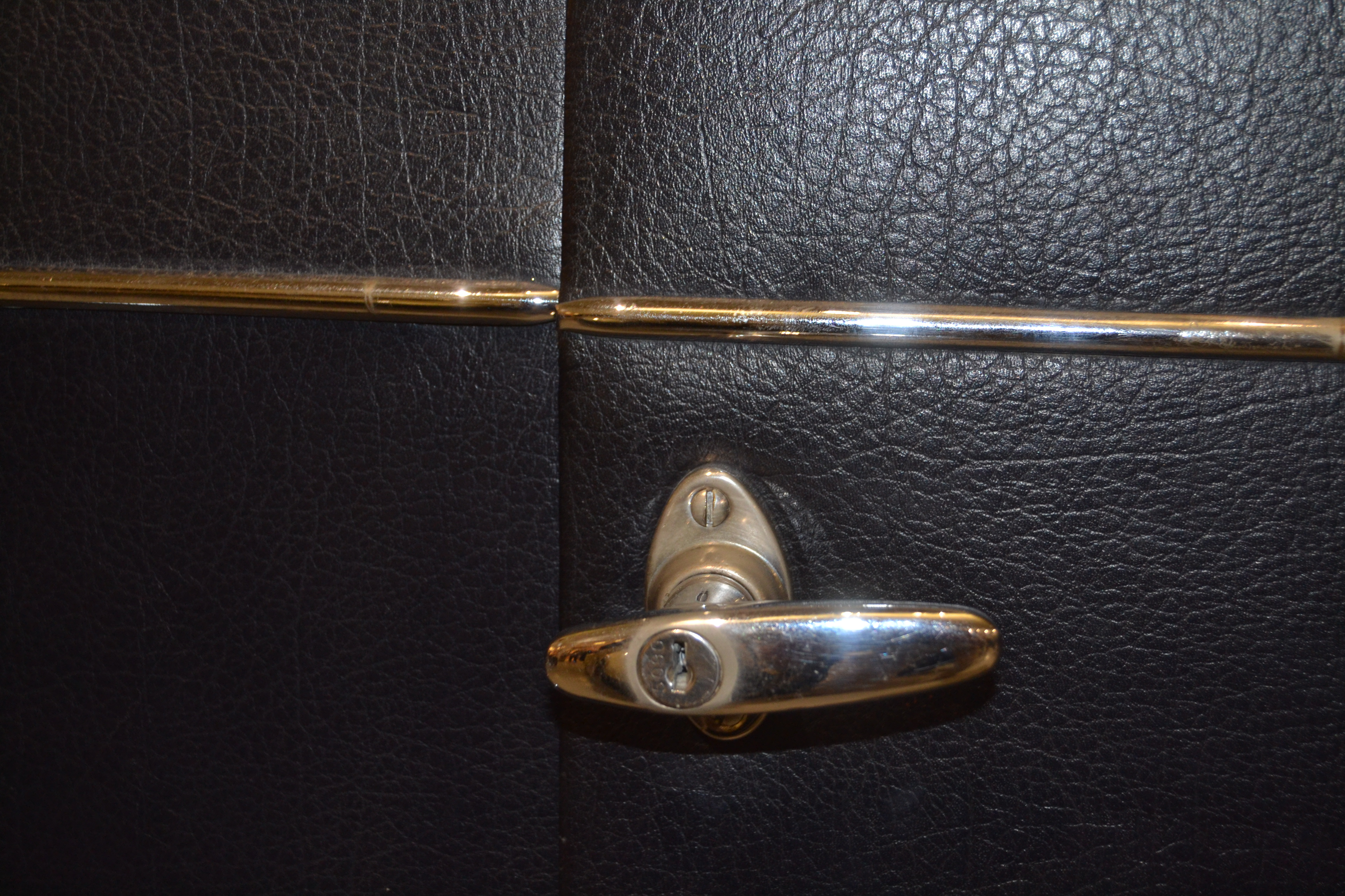 Rover Light Six (1929) with Weymann Fabric Body (Detail); Heritage Motor Centre, Gaydon, Warwickshire